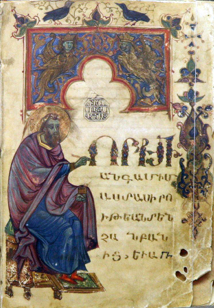 David Anhaght, Definition of Philosophy, ca. 1280, Matenadaran Ms. 1746, Yerevan, Armenia.